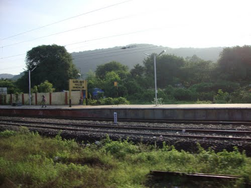 Vandalur Railway Station